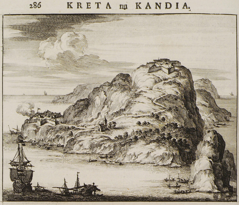 View of S. Teodoro island (Agioi Theodoroi Islands) in Olfert Dapper, Naukeurige Beschryving der Eilanden in de Archipel der Middelantsche Zee, Cyprus, Rhodes, Kandien, Samos, Scio, Negroponte, Lemnos, Paros, Delos, Patmos, en andere, in groten getale, Amsterdam, Wolfgangh, 1688